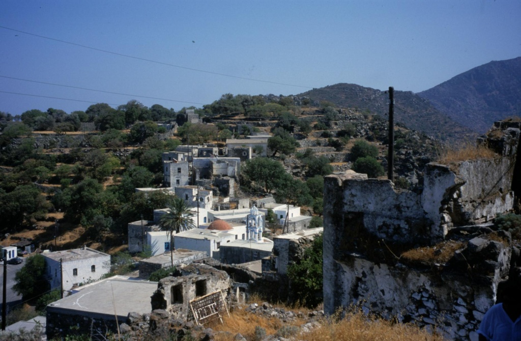 The village Emborio on the Greek island of Nisyros